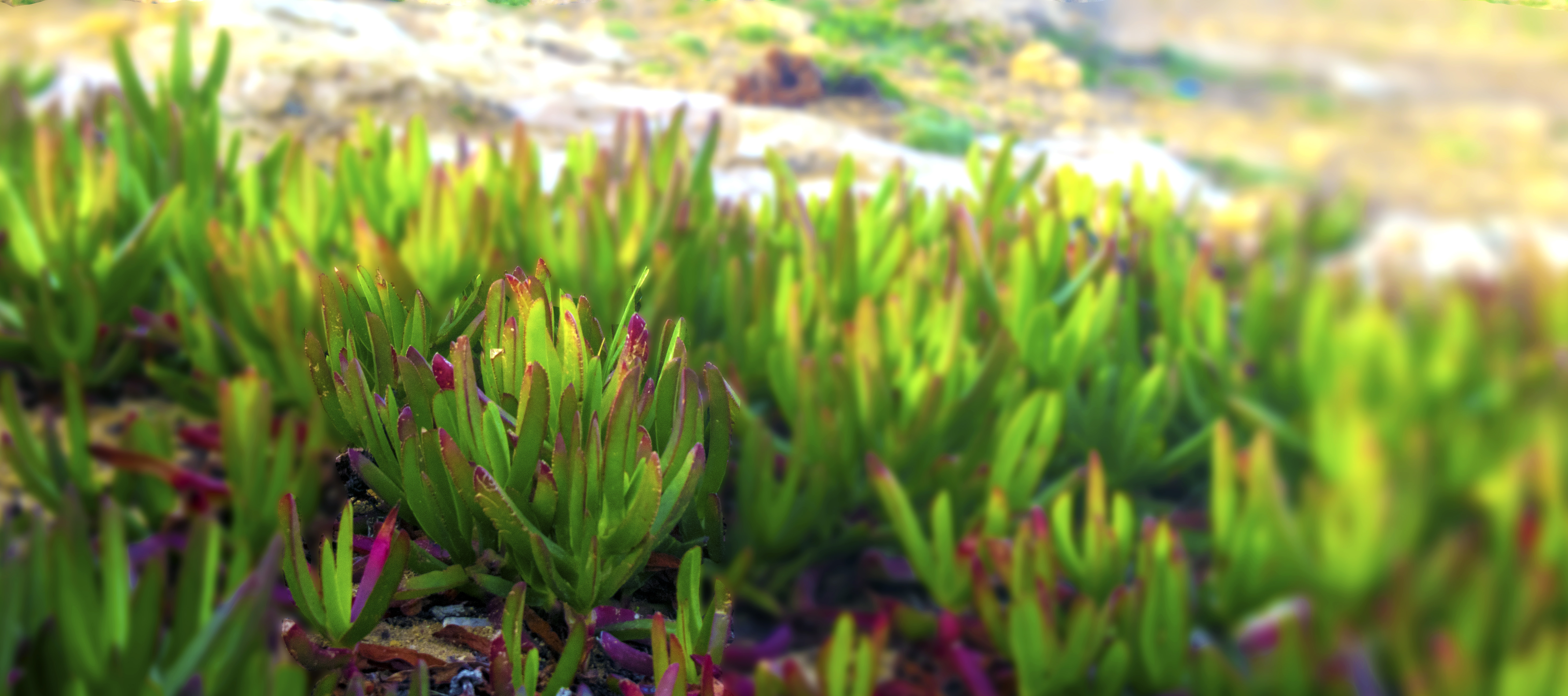 Found this Hottentots Fig, also known as Sour Figs at Cape Angela, Tunisia.